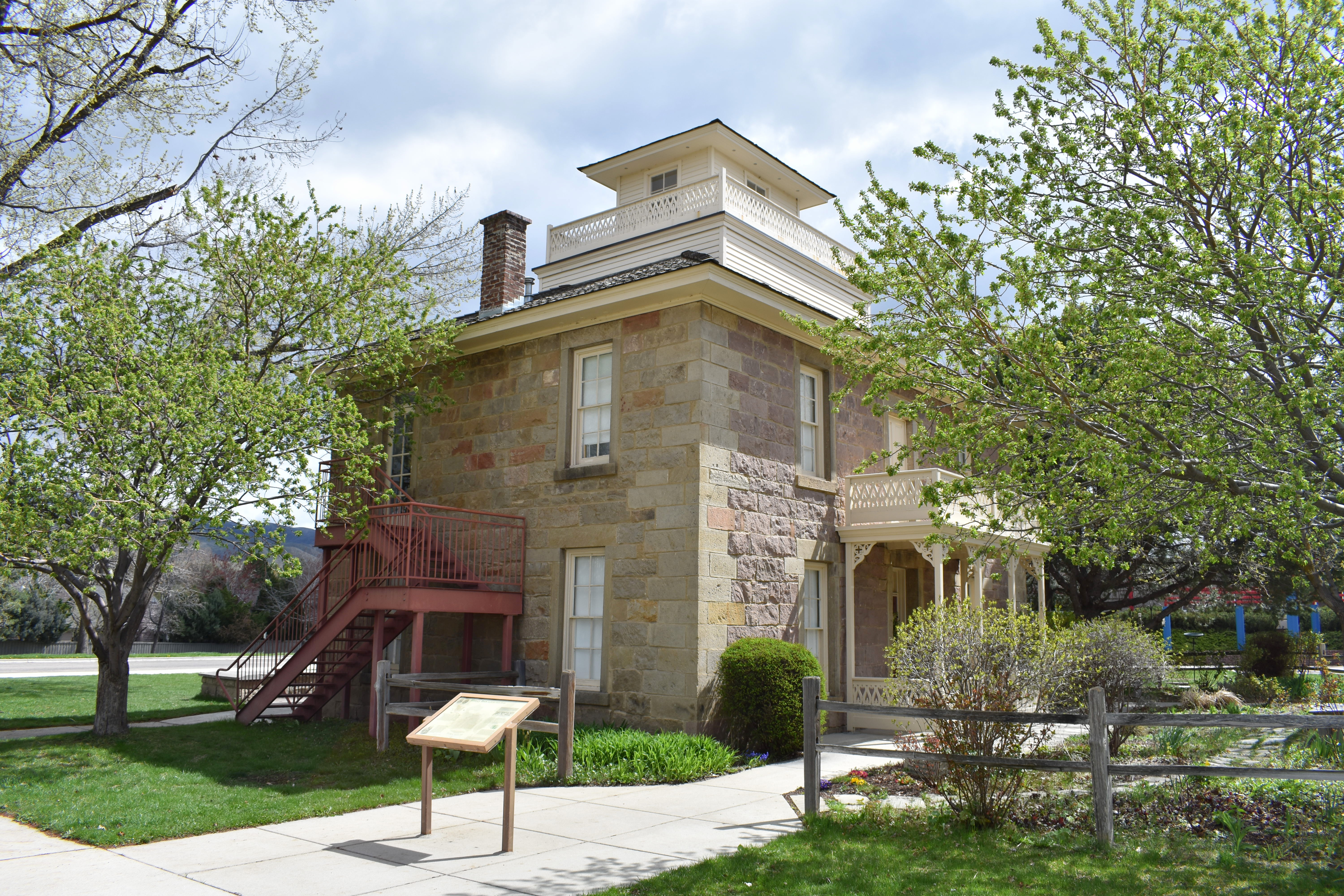 The Joseph Bown House in Boise, Idaho, was constructed in 1879 and added to the National Register of Historic Places in 1979. The house was constructed by Boise pioneer Joseph Bown, and he and Temperance (Hall) Bown occupied the house until 1893.